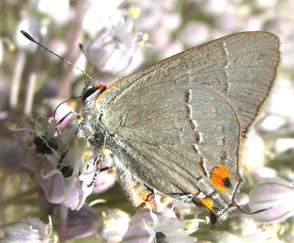 Northern Hairstreak, Satyrium favonius ontario (previously Euristrymon Ontario)